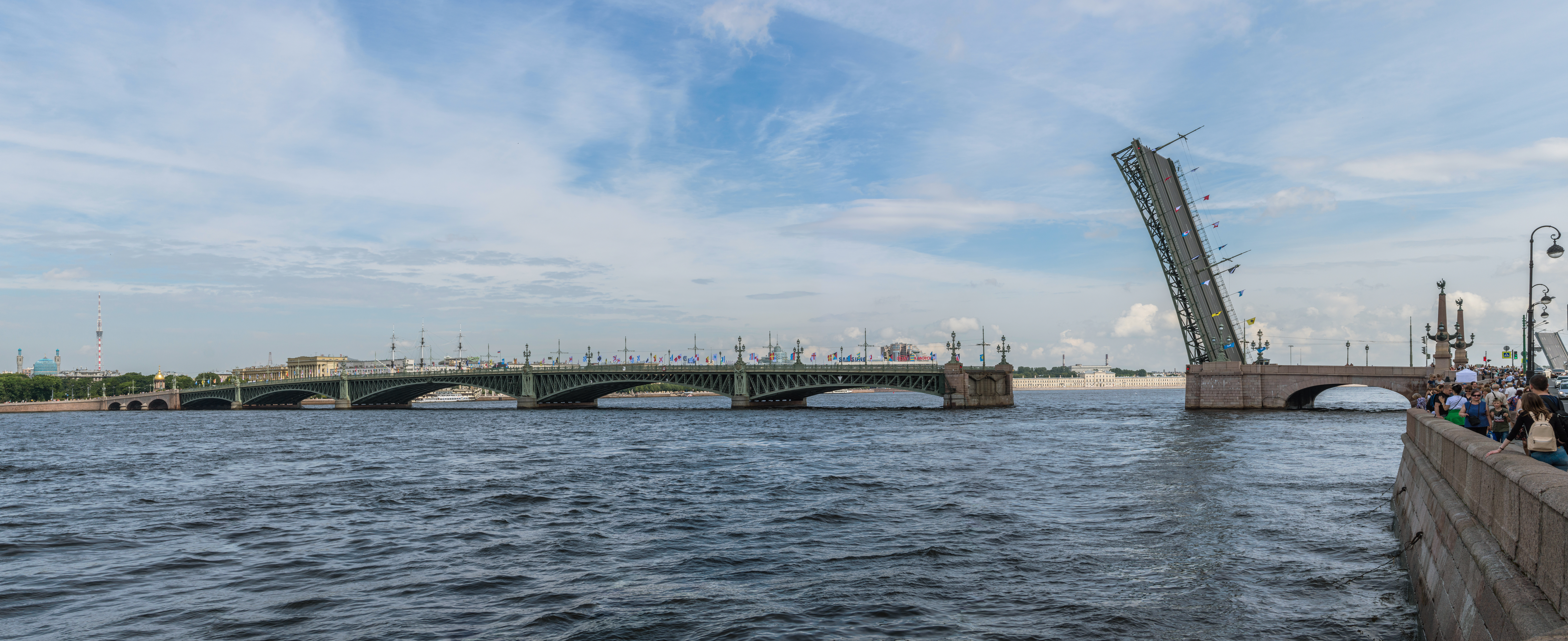 Drawn Trinity Bridge in Saint Petersburg